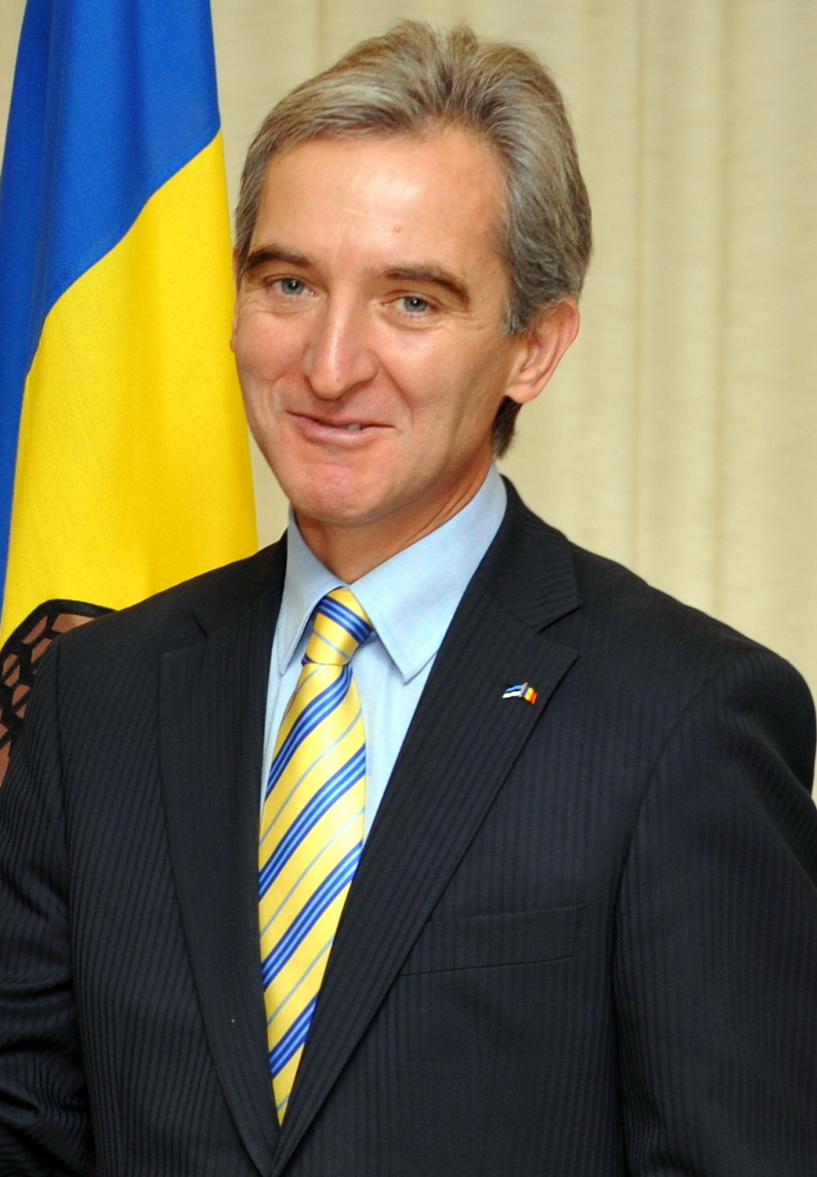 Moldova's Deputy Prime Minister and Minister of Foreign Affairs and European Integration Iurie Leanca. 20th October 2011